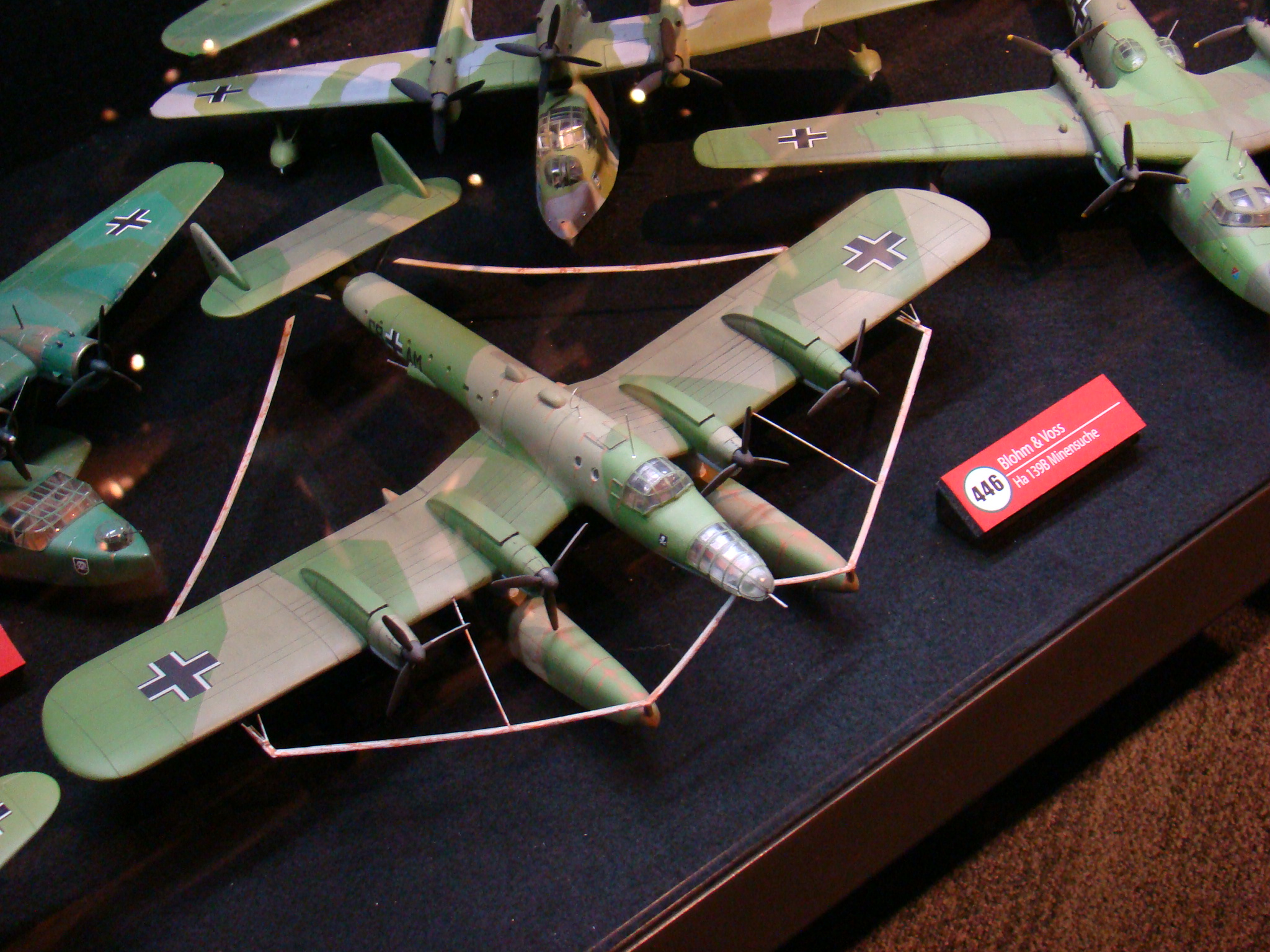 1/72 Blohm & Voss Ha 139 Minesweeper